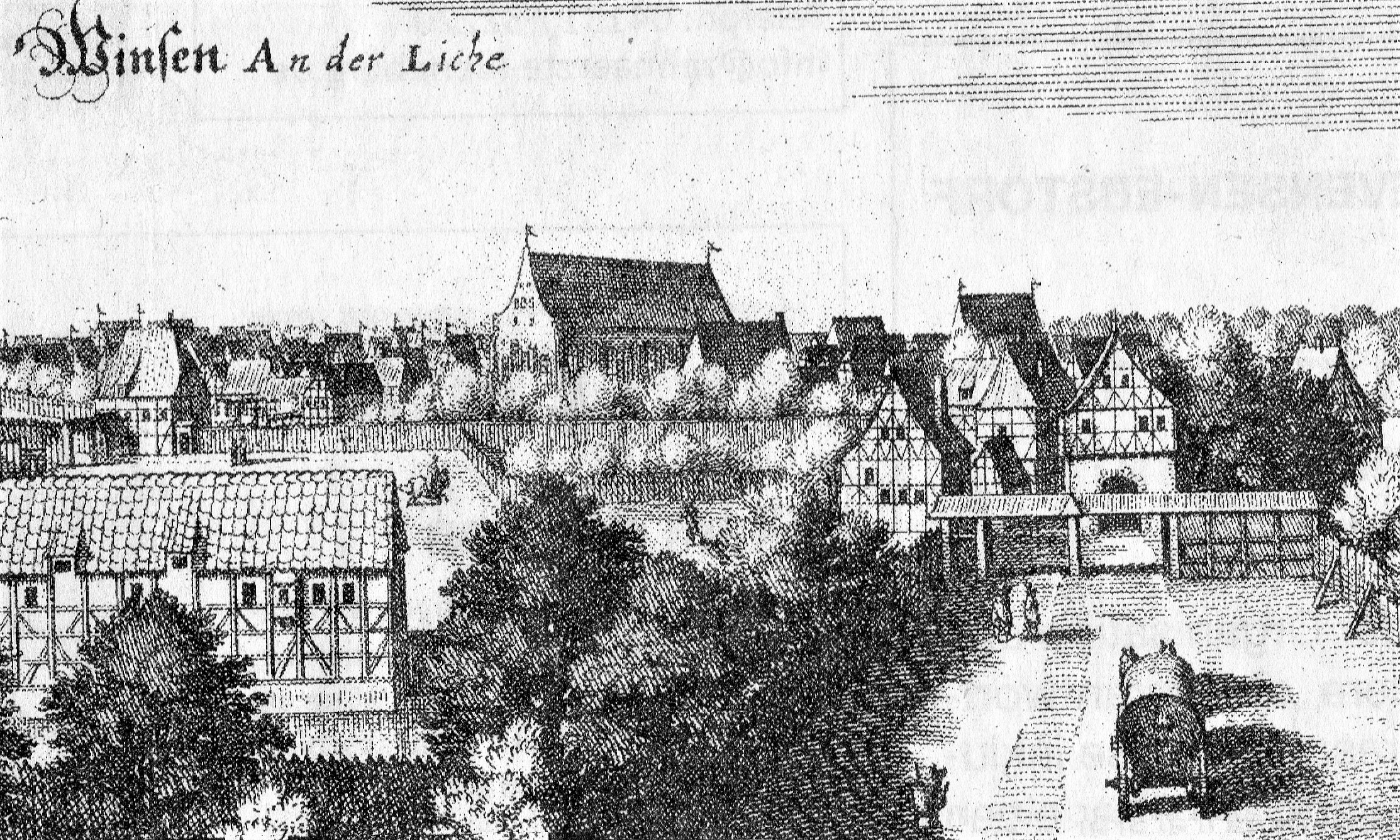 Detailed view of the St Marien church in Winsen an der Luhe by Matthäus Merian